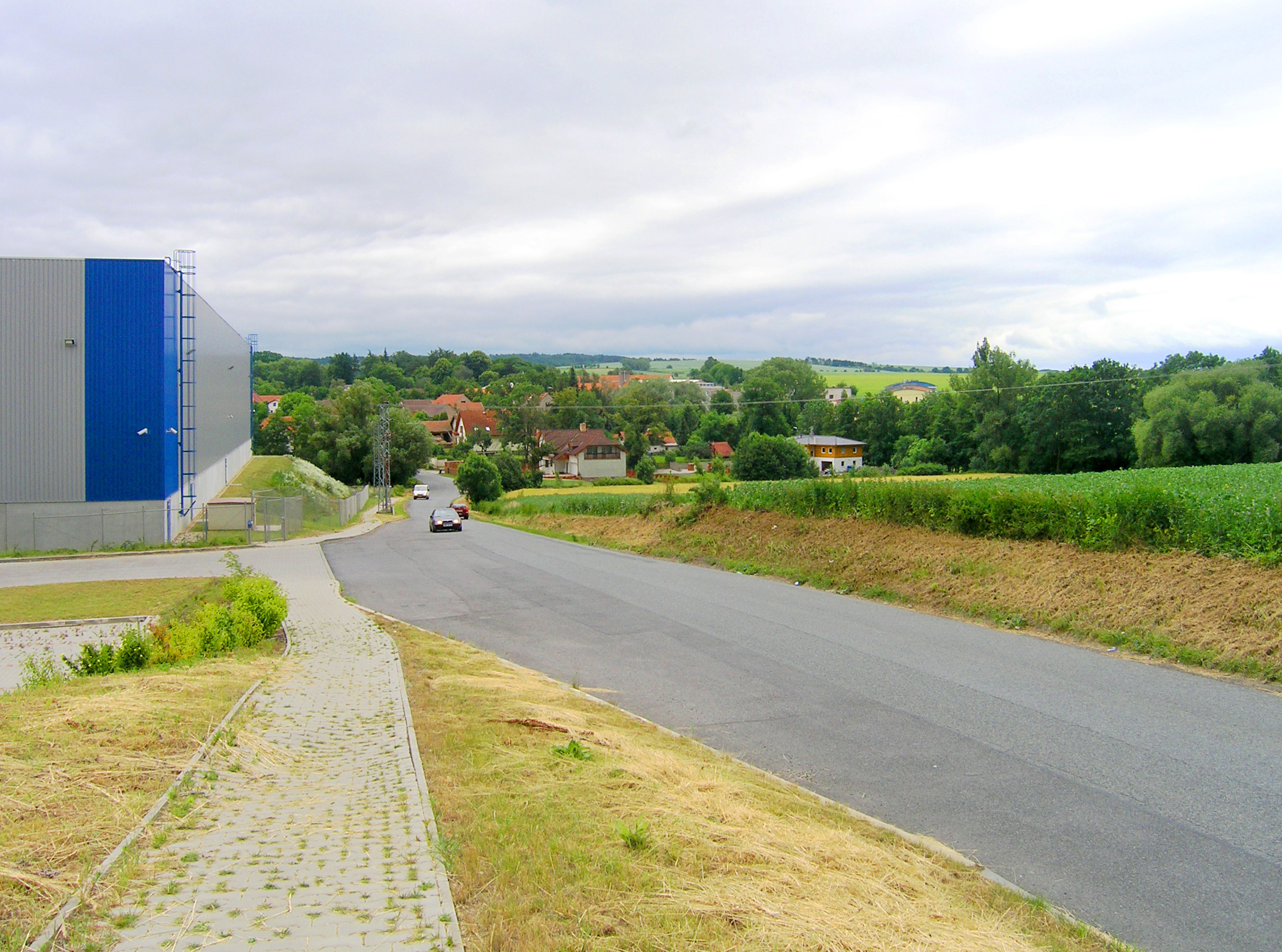 North view of Modletice, Czech Republic